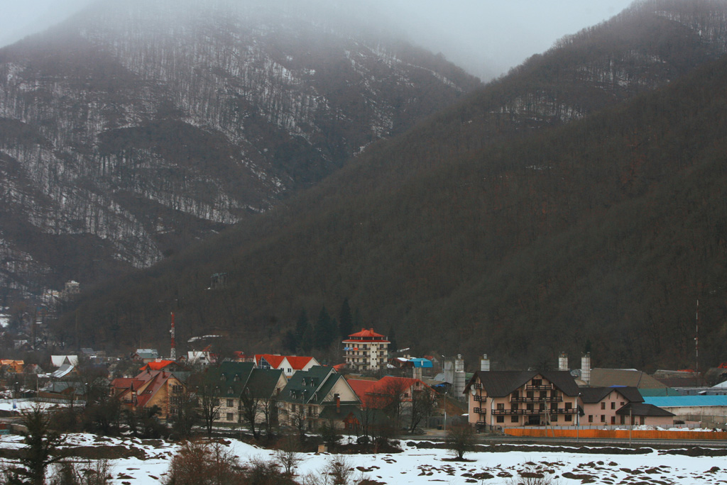 “Krasnaya Polyana”. A panorama of Esto Sadok, in the environs of Sochi, a resort on the Russian Black Sea coast.